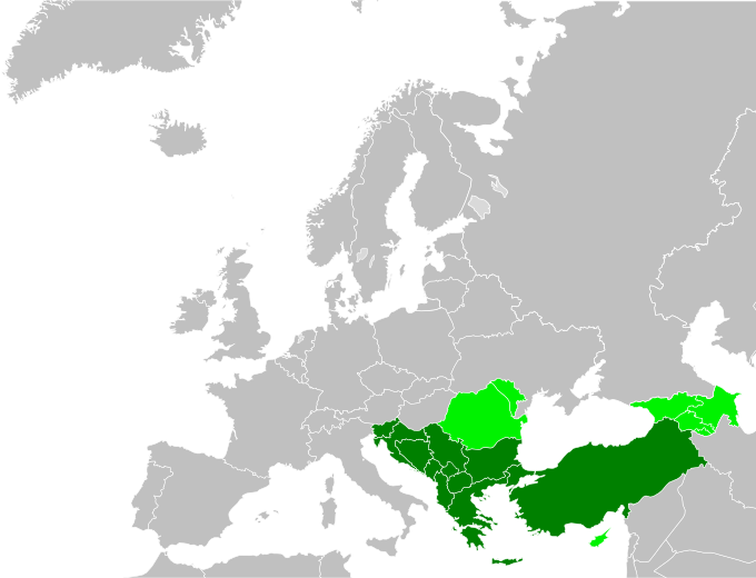 Map showing approximately the location of Southeastern Europe